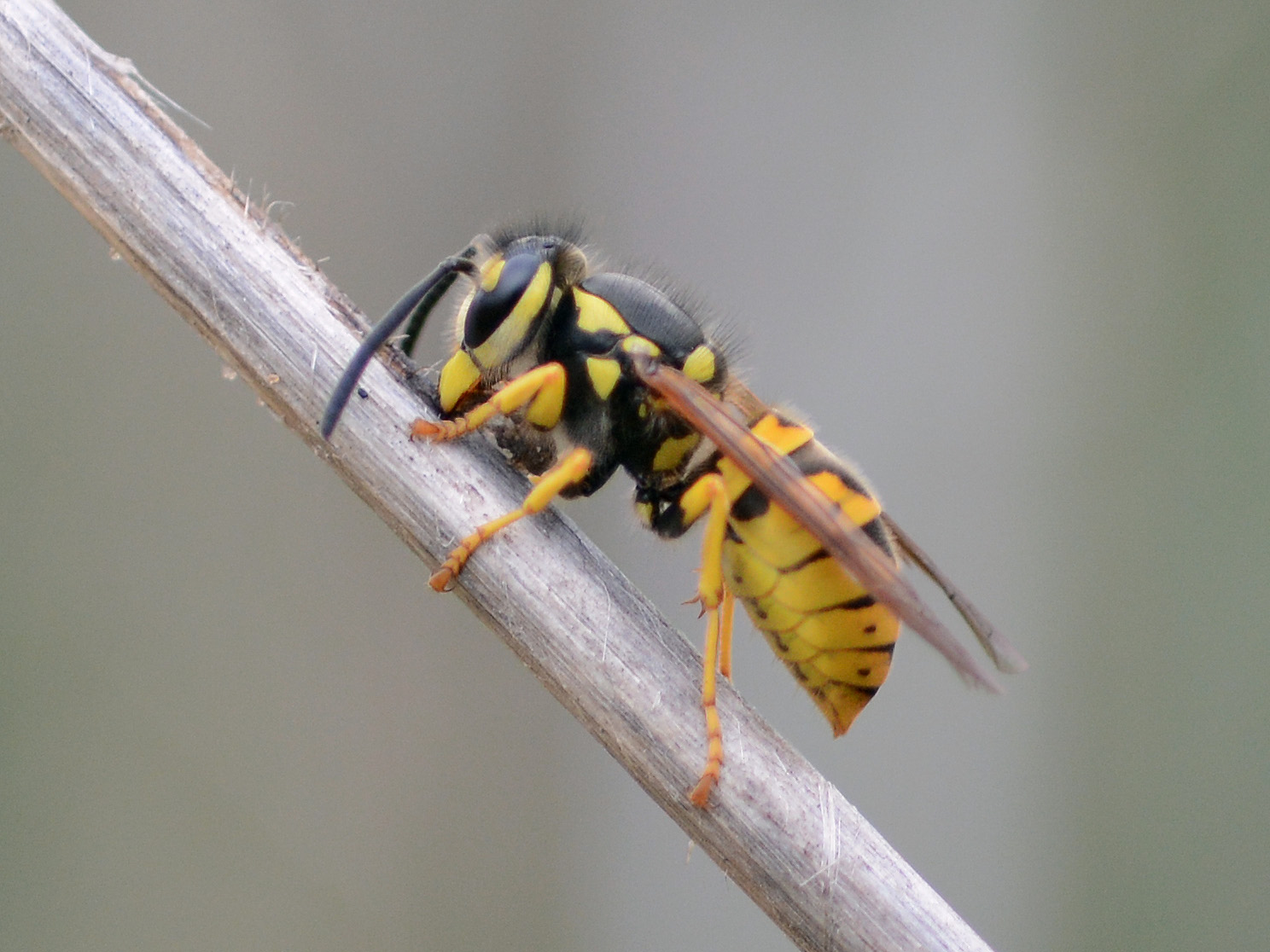 Wasp on a branch